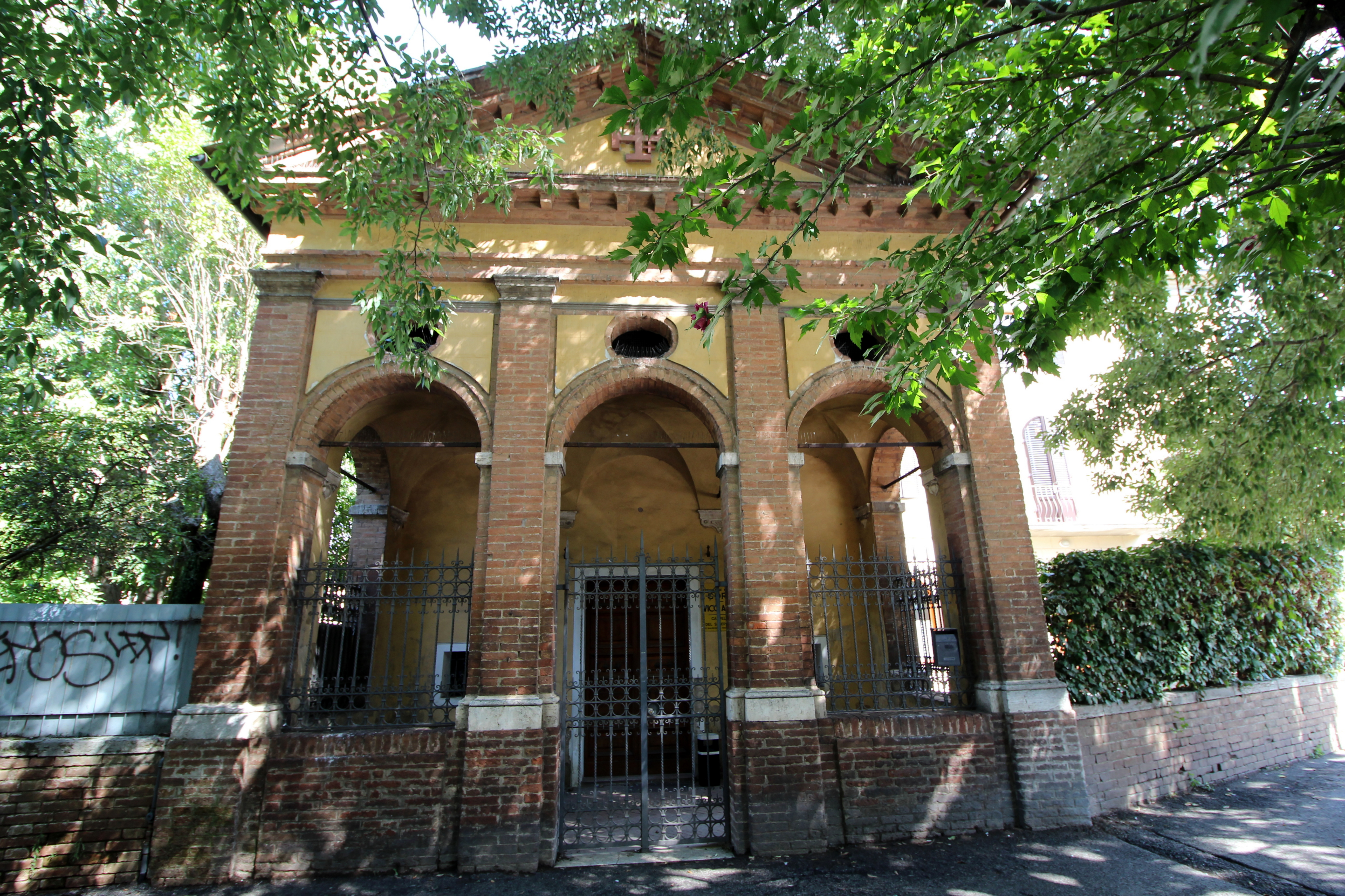 Chapel Cappella del Santo Sepolcro (before: Oratorio della Santa Croce di Gerusalemme), Via Vittorio Emanuele II., Siena, just outside of Porta Camollia, Province of Siena, Italy.